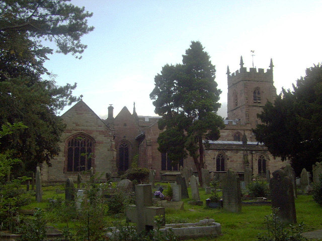 All Saints' parish church, Madeley, Staffordshire, seen from the north